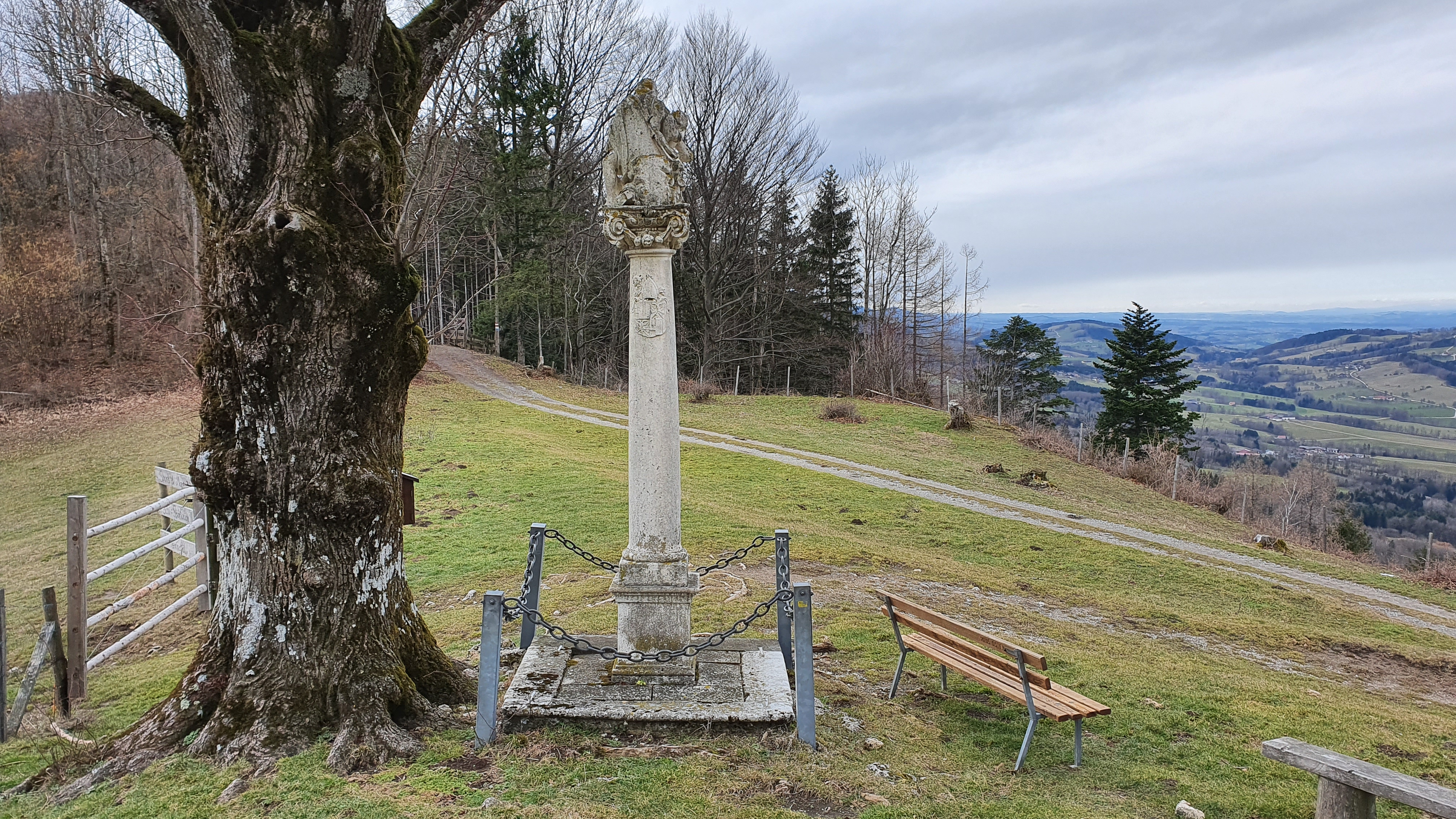 Schwabeck-Kreuz, Texingtal, Austria